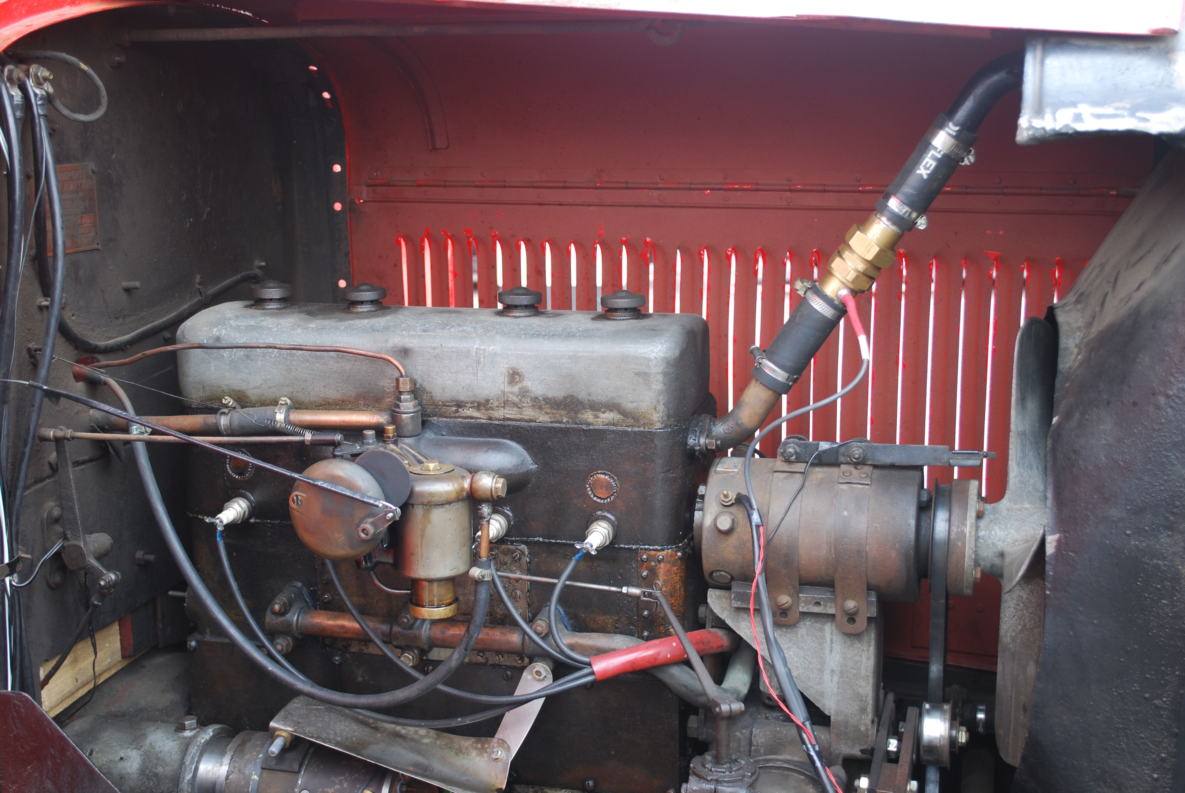 De Dion Bouton Autorail's Petrol Engine